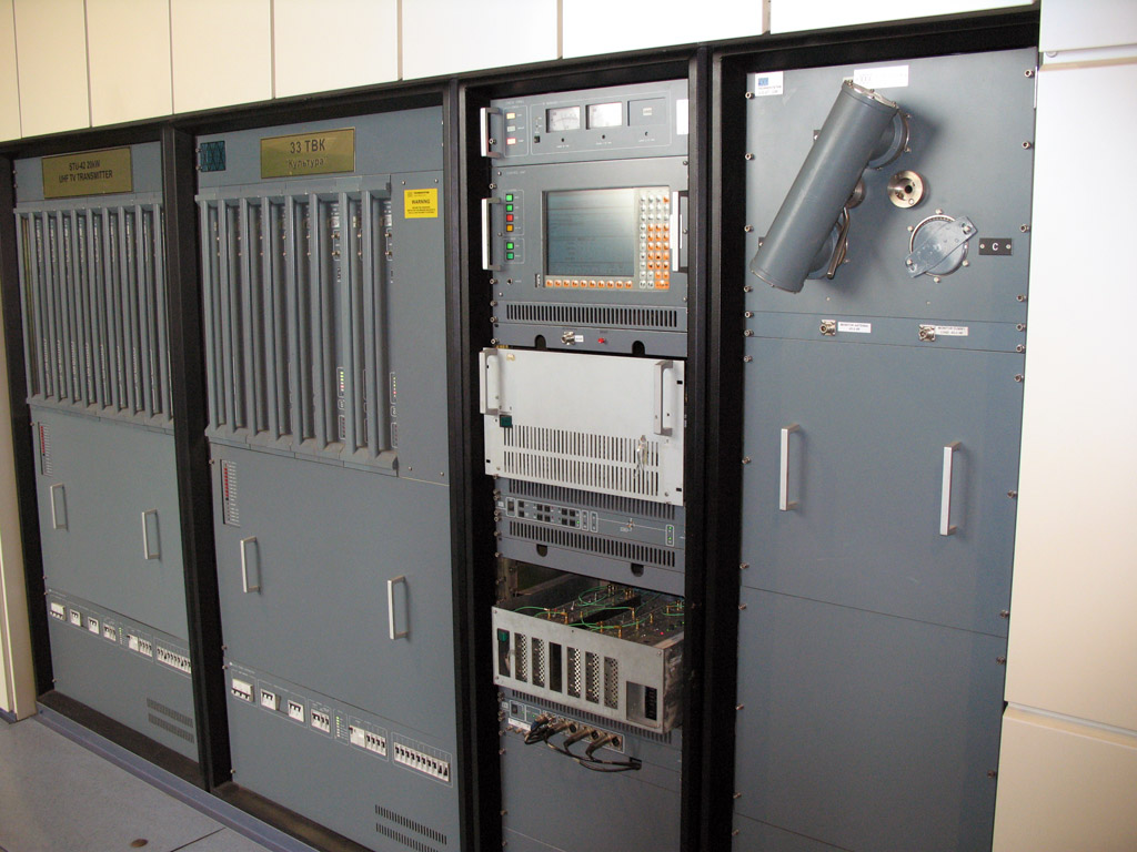 Department of the TV transmitters Ostankino TV tower